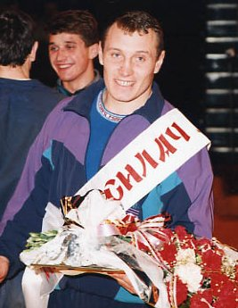 my photo on 'Mister Powerman Sekai" at 23 jan 1996